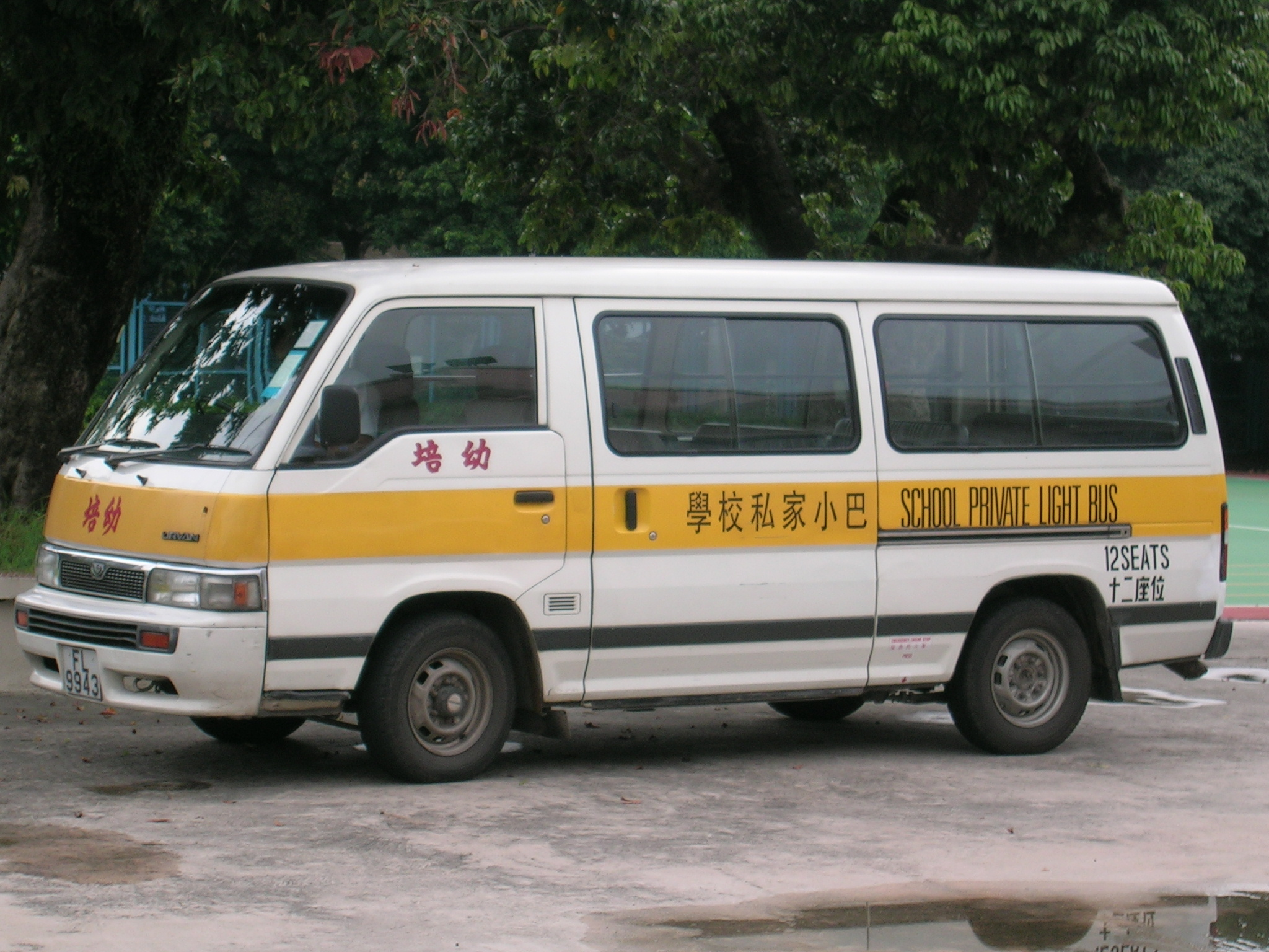 Nanny van parked at our school, photoed by Tomchiukc at 07:39, 27 July 2006 (UTC).